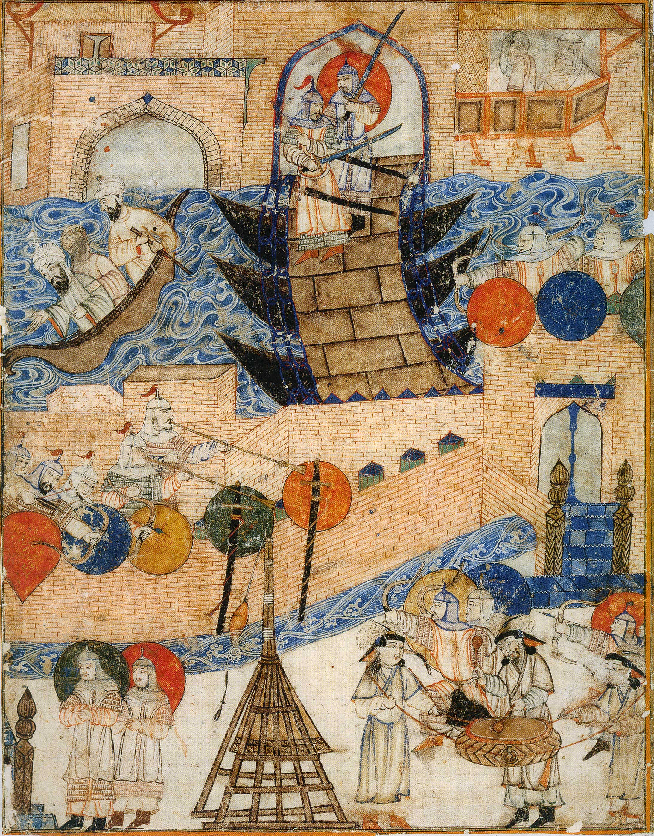 Conquest of Baghdad by the Mongols 1258. Right part of a double-page illustration of Rashid-ad-Din's Gami' at-tawarih. Tabriz (?), 1st quarter of 14th century. Water colours and gold on paper. Original size: 37.4 cm x 29.3 cm. Staatsbibliothek Berlin, Orientabteilung, Diez A fol. 70, p. 4. Note the ponton bridge, siege engine, and the refugee on the boat, maybe a high dignitary or even the calif himself. For the complete illustration, see Image:DiezAlbumsFallOfBaghdad.jpg.